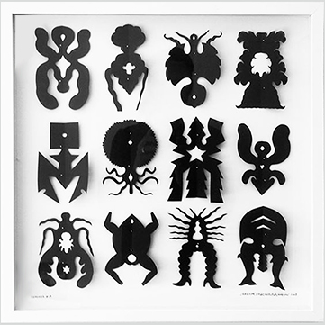 Demons by Carl Fredrik Holtermann. Papercuts mounted with insect pins in a glass box. Photo Carl Fredrik Holtermann.